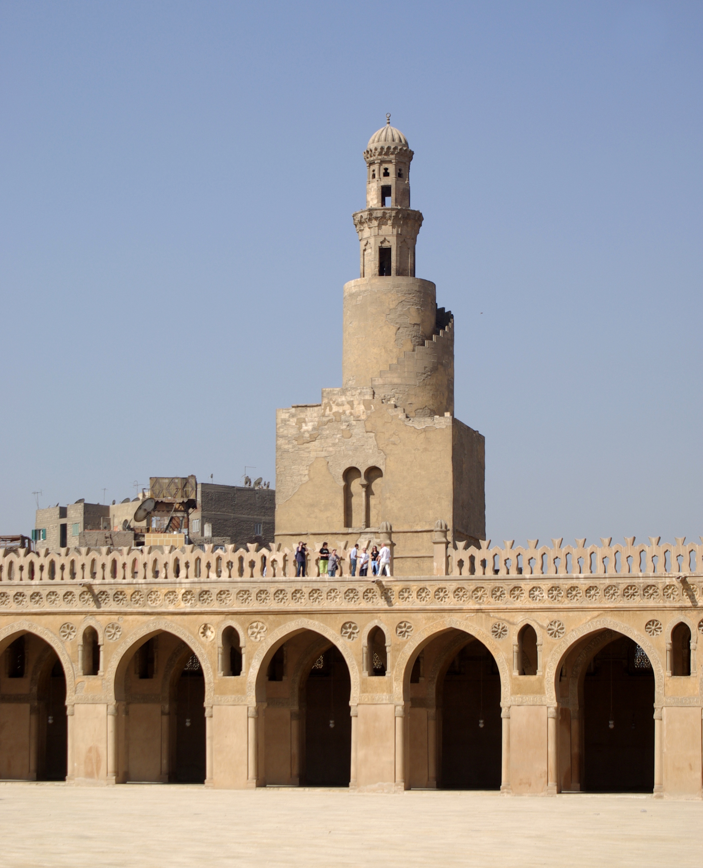 Cairo, Ibn Tulun Mosque